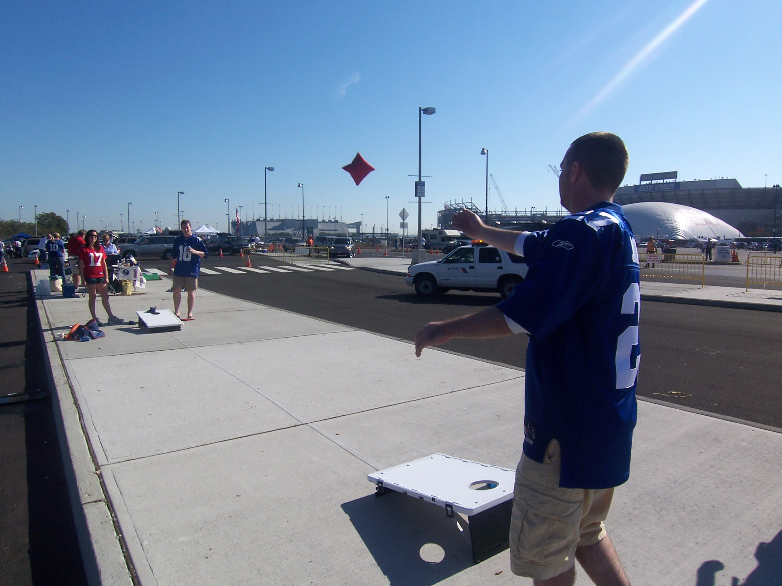 Cornhole